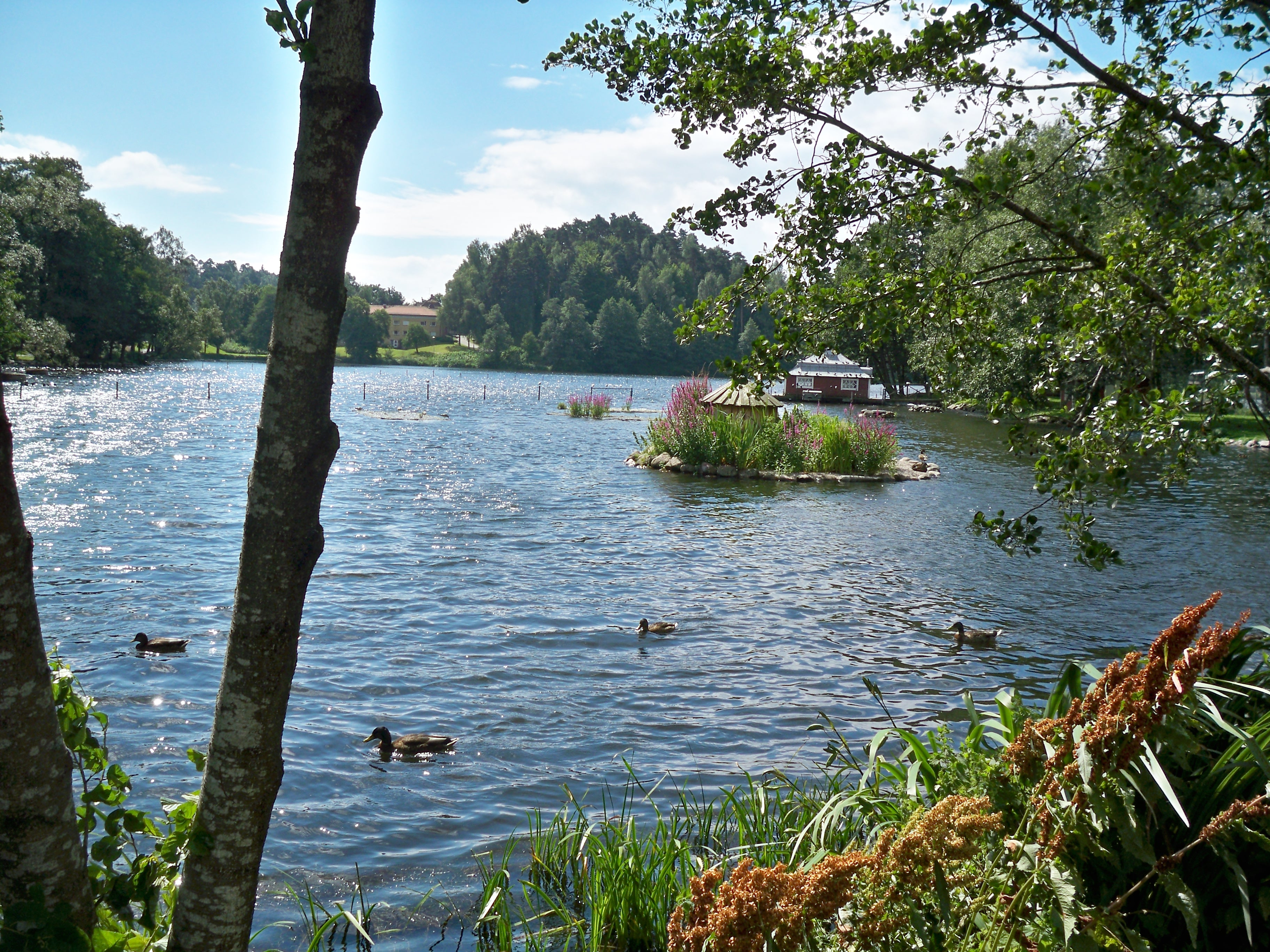 The bird park of lake Ramnasjön from afar